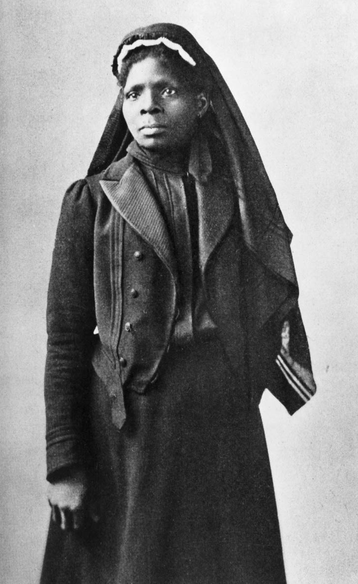 Susie King Taylor, black educator and army nurse (Aug. 6, 1848-Oct. 6, 1912), published in Reminiscences of My Life in Camp: With the 33d United States Colored Troops Late 1st S. C. Volunteers (1902)